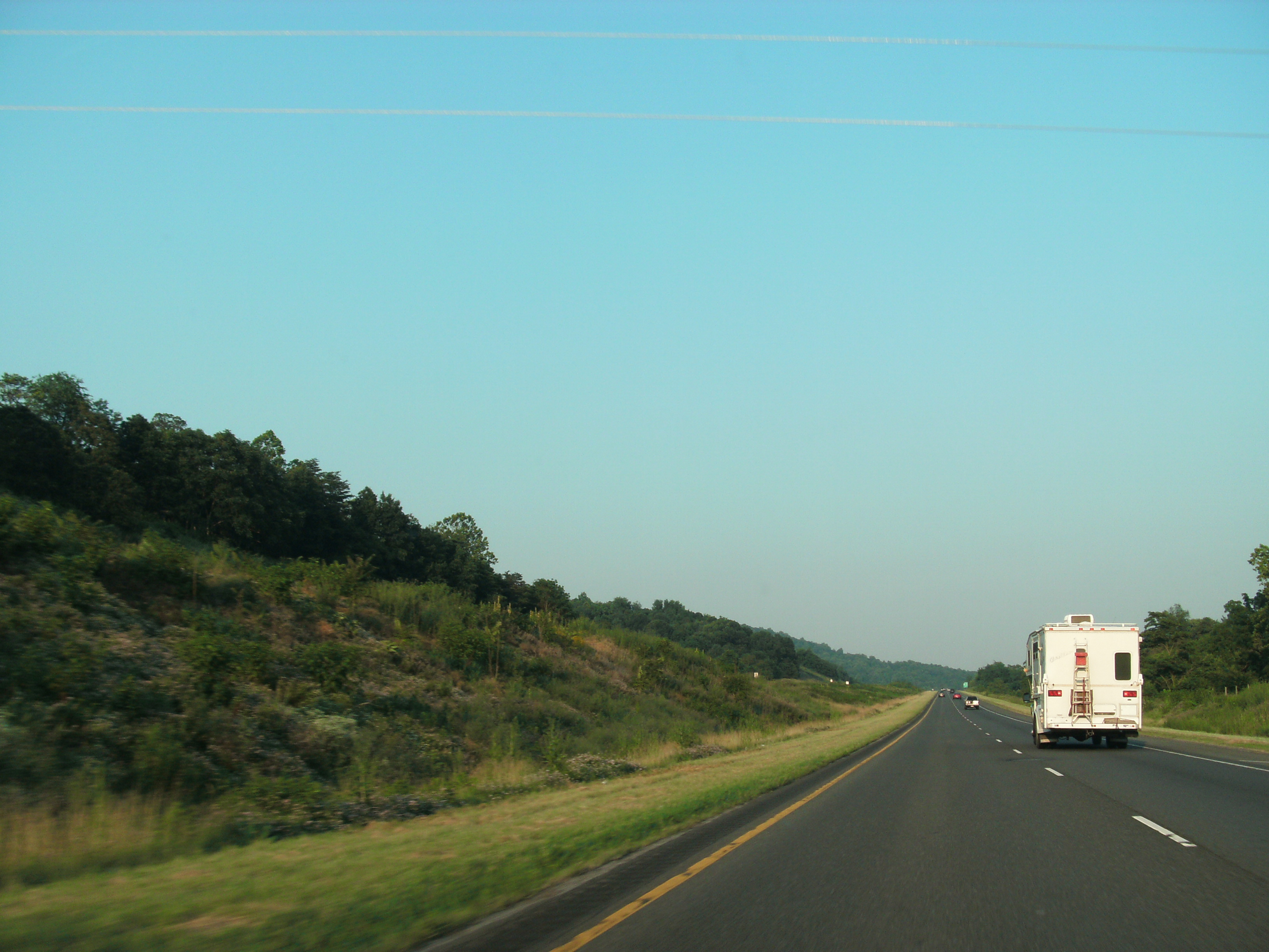 Image I took for Wikipedia, on Interstate 66 outside of Linden, Virginia